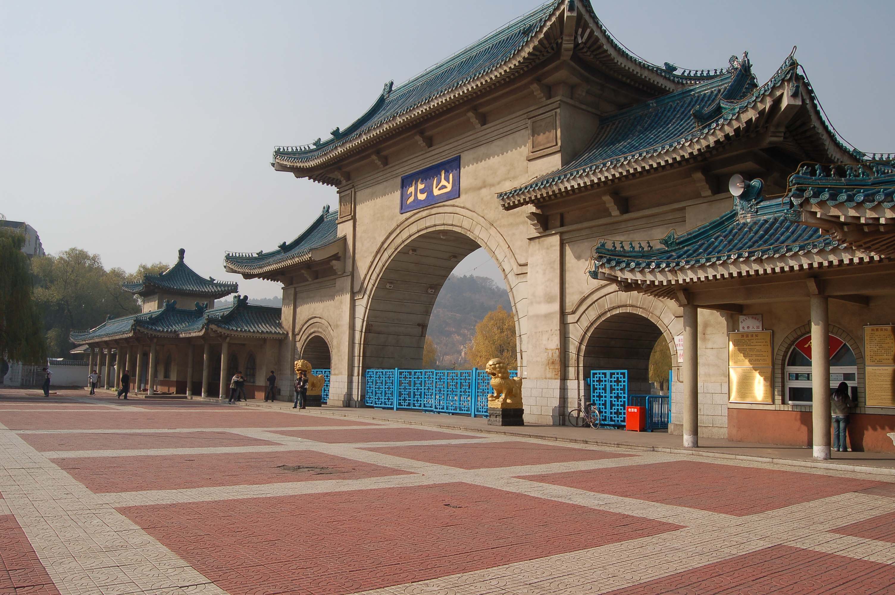 Main-entrance of BeiShan